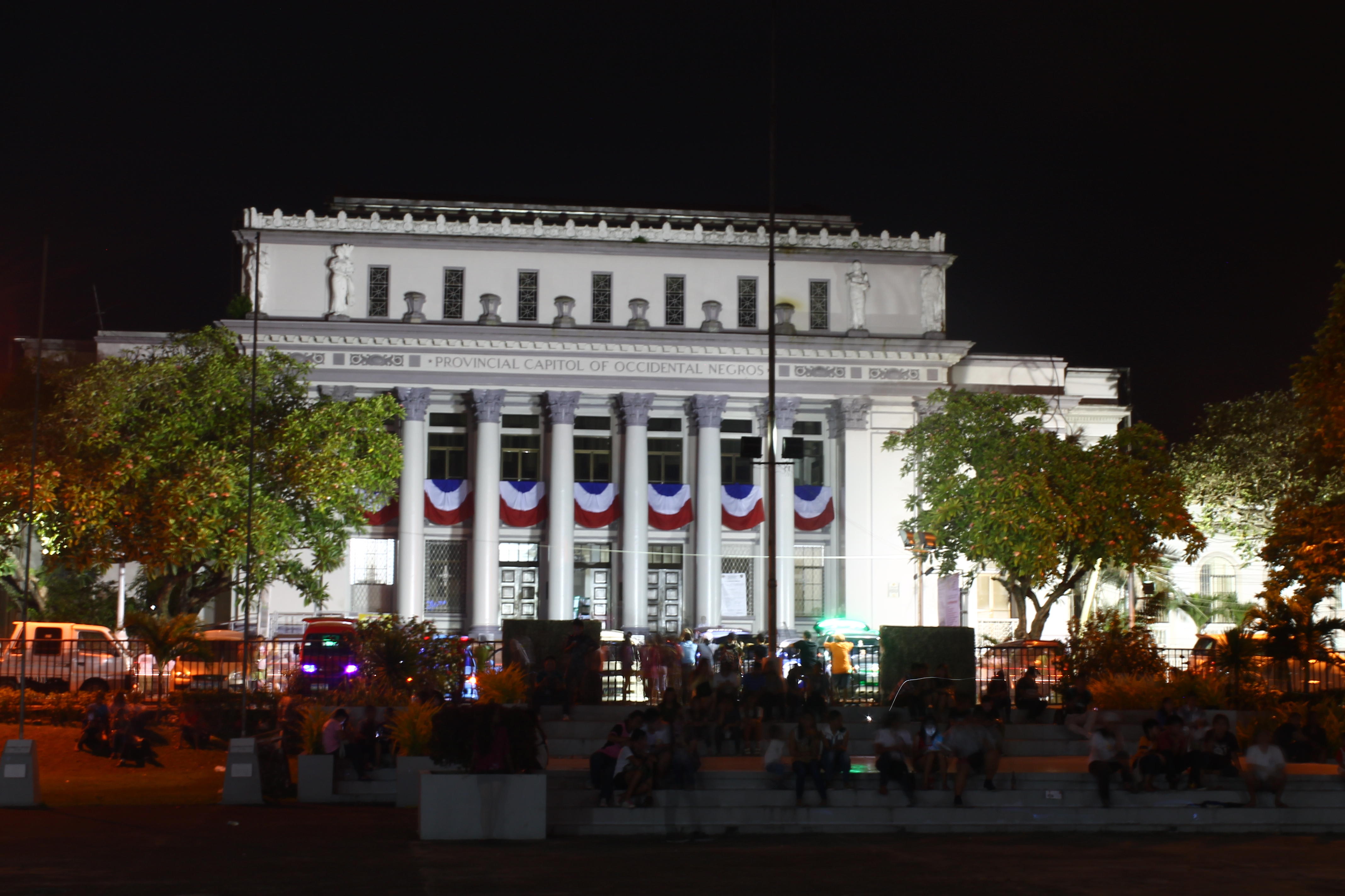 The capitol at night.